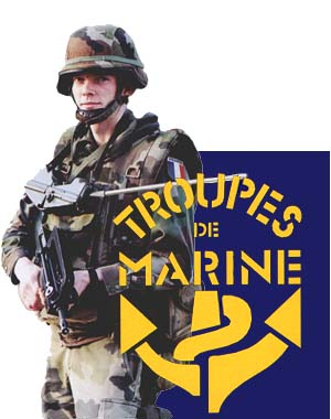 Pictures of the Marines (France) Army.